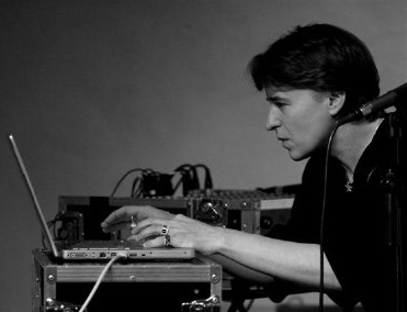 Dorothée Hahne, Live at Klangraum Festival Stuttgart 30.11.2008